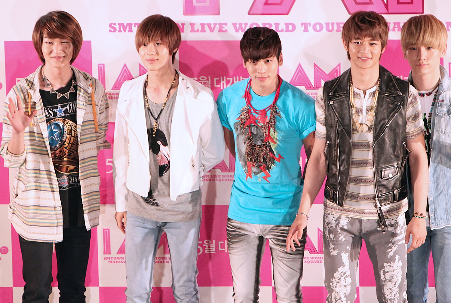 Shinee at the I AM film's showcase on April 30, 2012.